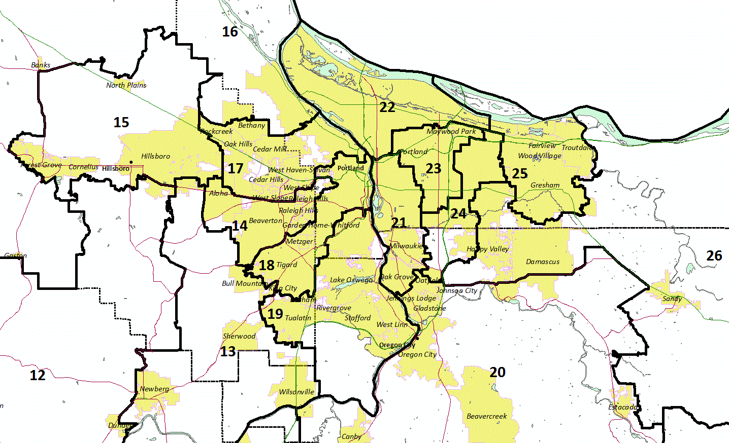 Map of 2012 Oregon State Senate Districts near Portland